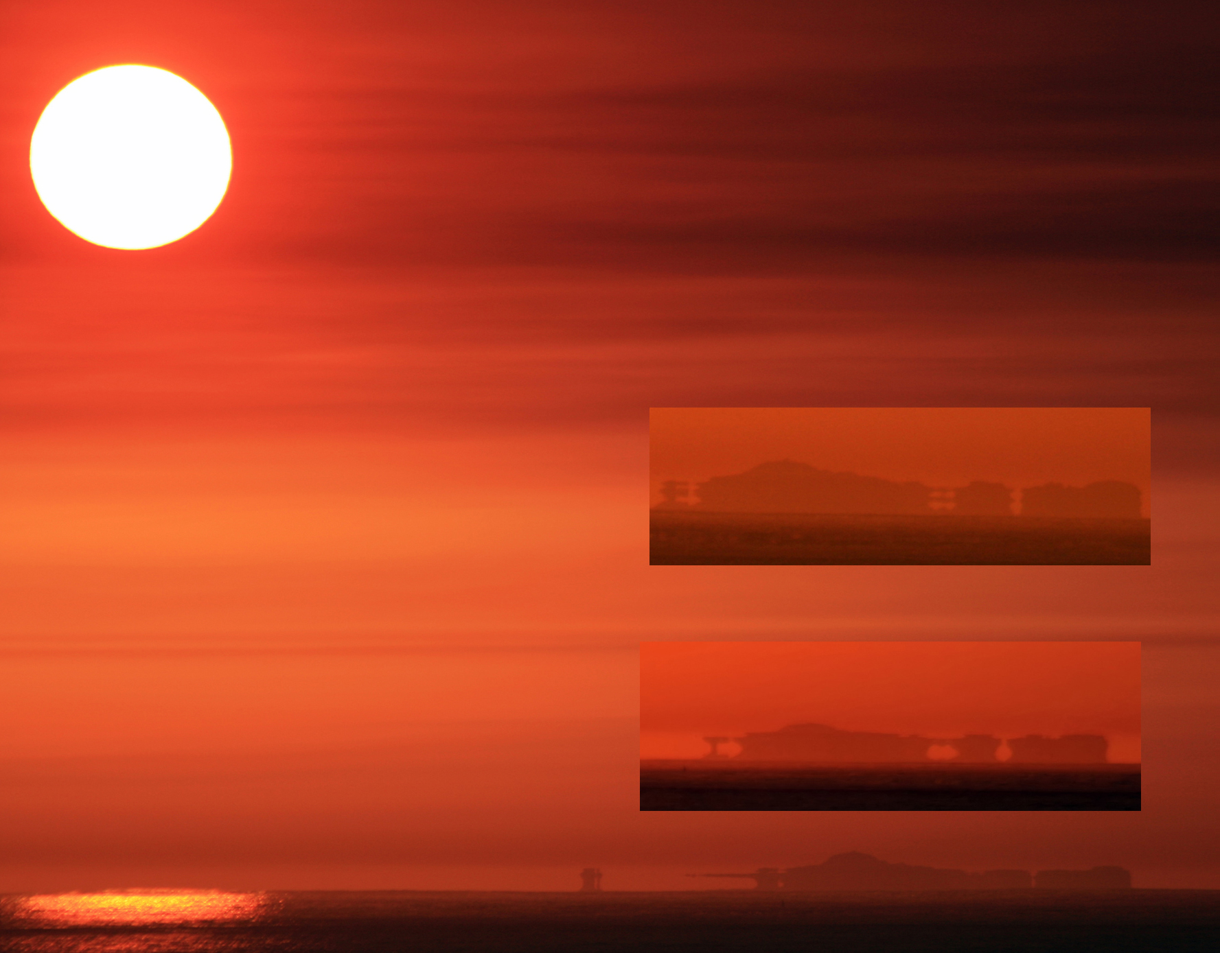 The ever changing Superior Mirage of Farallon Islands.